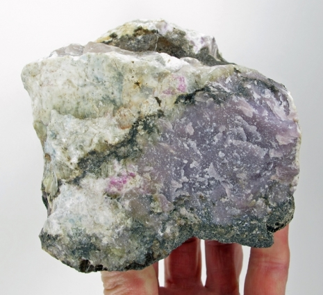 Ussingite, Sodalite (Size: 12.0 × 11.0 × 7.8 cm) Locality: Ilimaussaq complex, Narsaq, Kitaa Province (West Greenland), Greenland Ussingite is a rare silicate found in syenite pegmatites, also sodalite-bearing xenoliths. Greenland is the Type Locality for this species. The large specimen features pods and stringers of translucent, pretty lavender ussingite surrounded by off-white sodalite and matrix. The sodalite fluoresces bright yellow and the ussingite a moderate green, which is hard to see in the photos. Ex. Jonathon Allred Fluorescent Collection.